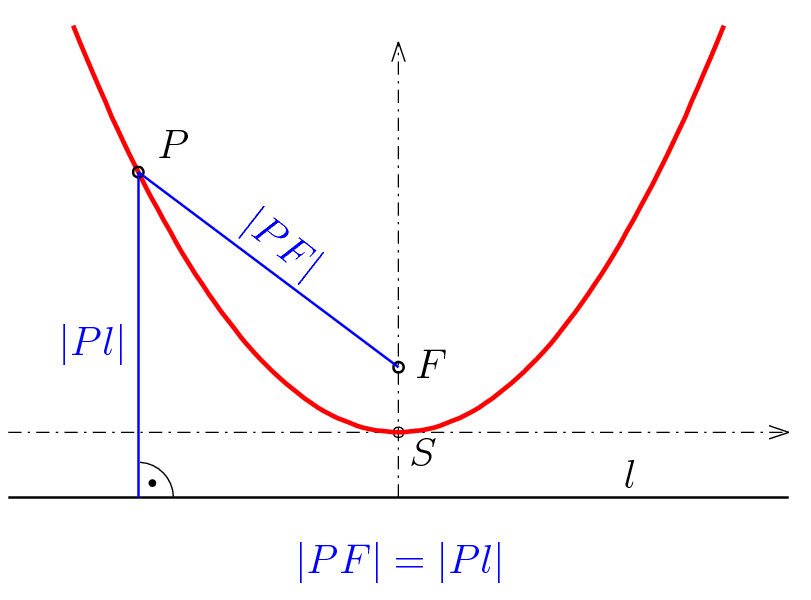 parabola: definition